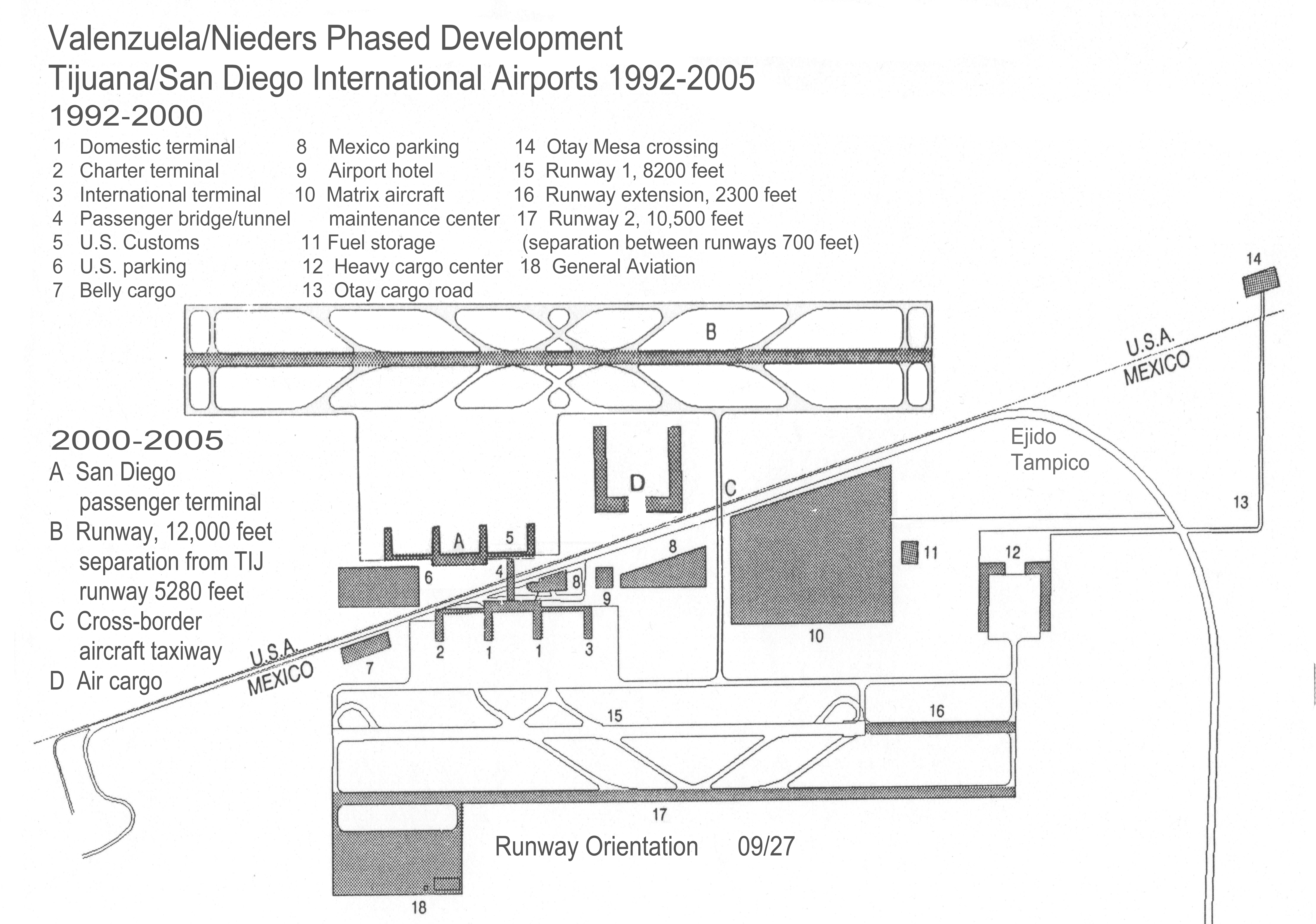 proposed phased development for the Tijuana/San Diego airport 1992